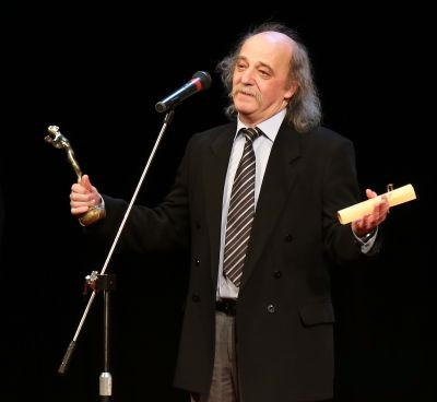 Slavcho Malenov